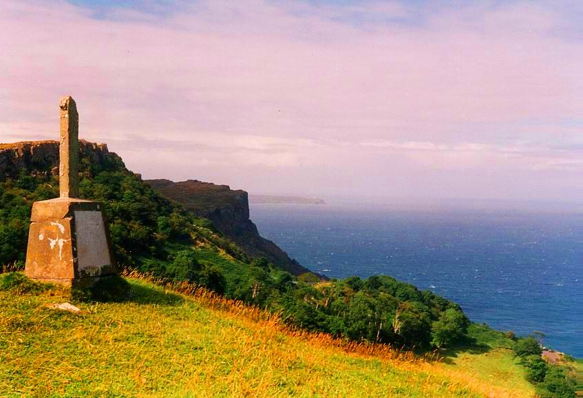 The plinth is what remains of a more recent cross which was erected on the site to commemorate Sir Roger Casement who was tried and executed for treason, espionage and sabotage against the Crown. While waiting execution in Pentonville prison he sent a letter to his cousin Gertrude Bannister in which he wrote 'Take my body back with you and let it lie in the old churchyard in Murlough Bay'. Roger Casement was a frequent visitor to Ballycastle, he stayed with relatives there and found a close affinity to the beauty and wildness of the location.